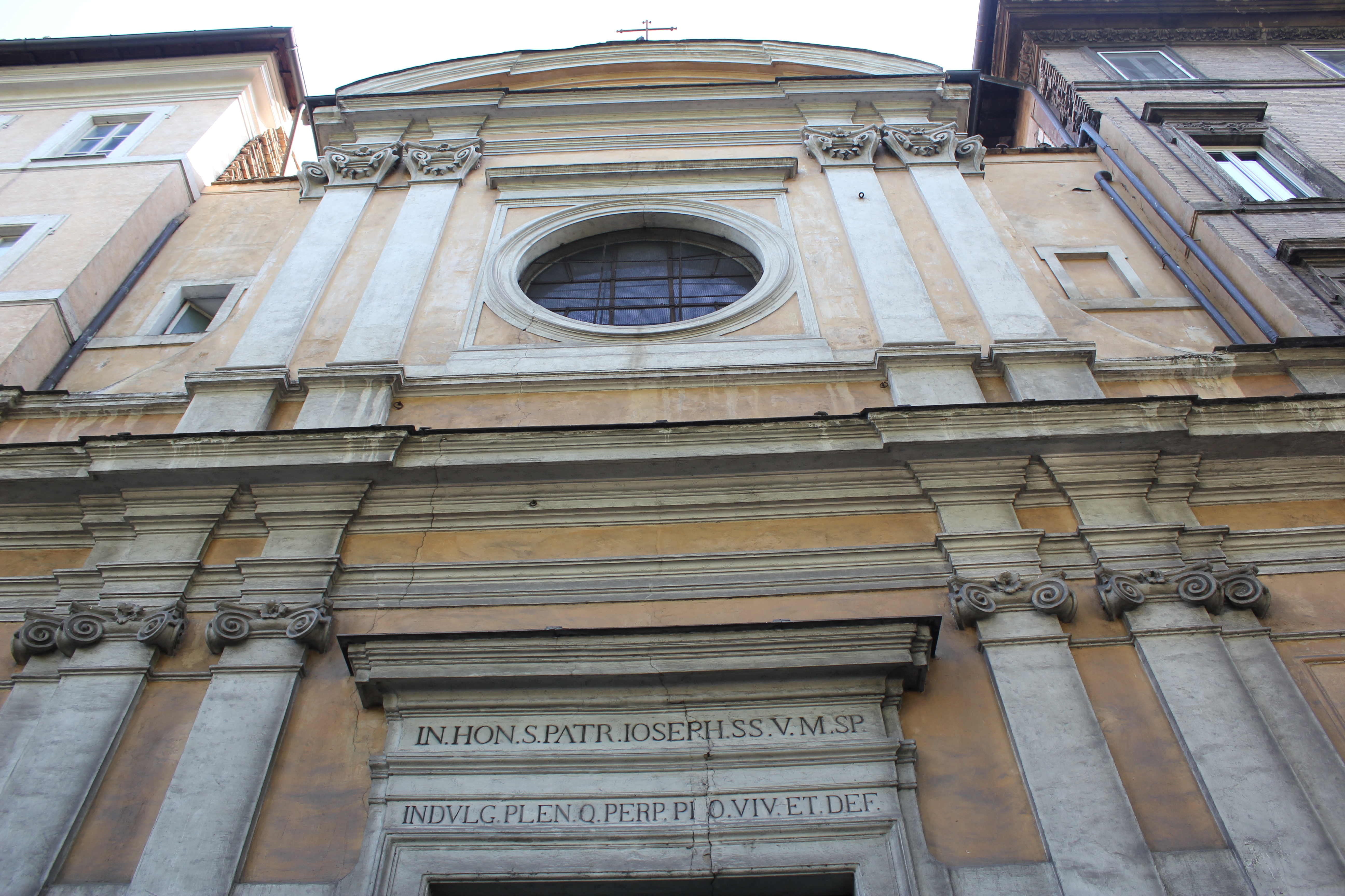 San Giuseppe alla Lungàra is a church dedicated to St Joseph, at Via della Lungàra 45 which is in the north end of Trastevere. The street here is very narrow, squeezed in below the Lungotevere Gianicolense.